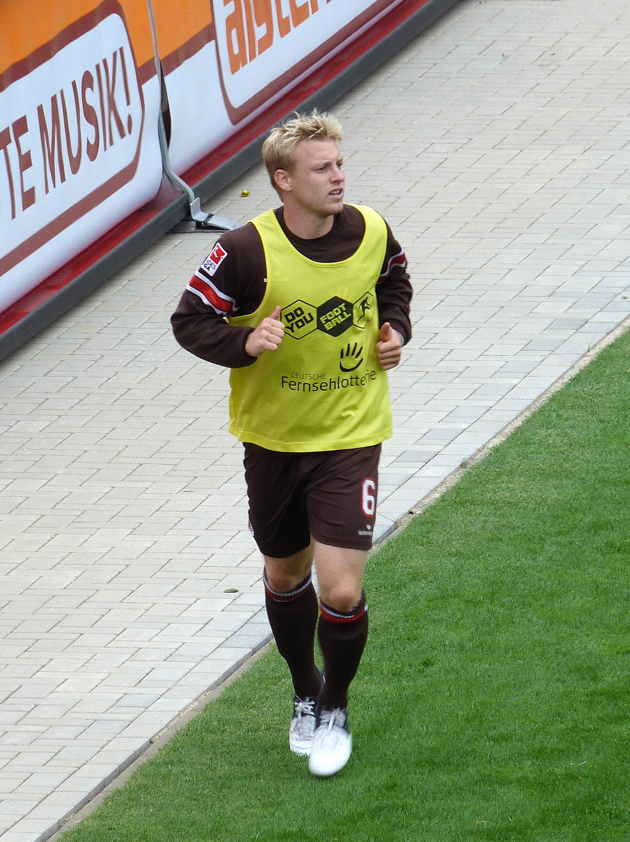 Patrick Funk as Player from the FC St. Pauli